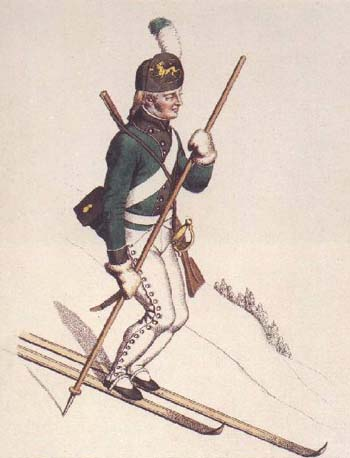 Drawing by Johannes Senn:"En norsk Skieløber." ("A Norwegian skier), published 1811. The skier has a military jacket of type M/1800 and white M/1793 type trousers.